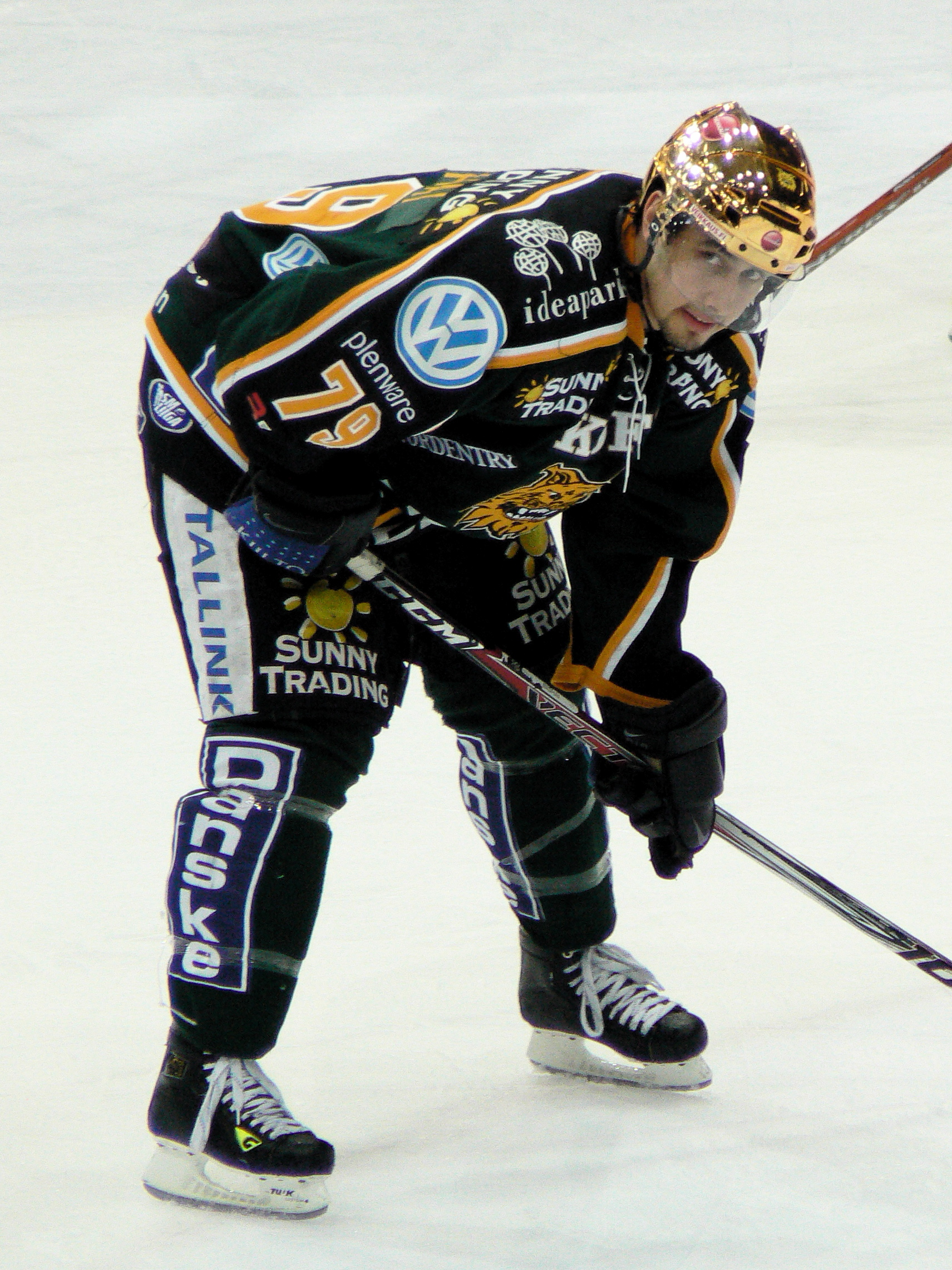 Canadian ice hockey forward Mike Bishai playing for Ilves Tampere in March 2008. Here, Bishai is wearing the golden helmet of the leading scorer of his team.